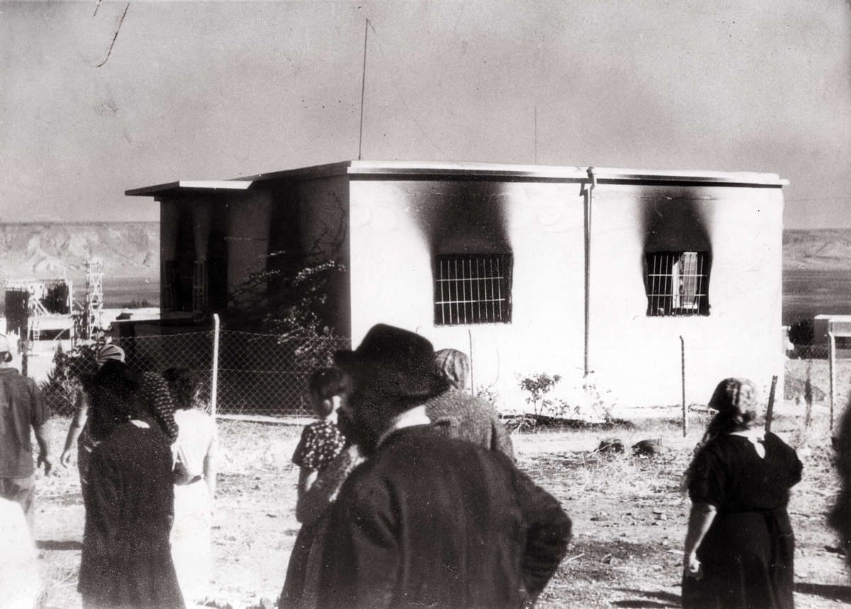 Riots of Palestine / Israel. Arab protests against the British government and the immigration of Jews in Palestine. Photo of house in the vicinity of Tiberias in which a Jewish family were burned alive by Arab rioters.